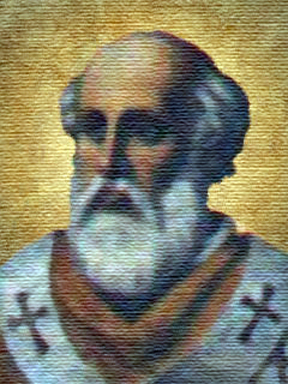 Pope Adeodatus II